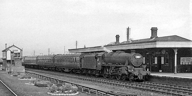 Abergele & Pensarn Station, with train. View eastward, towards Chester; ex-London & North Western, Chester - Holyhead main line. The train is a Crewe to Llandudno express, headed by Stanier Class 5 4-6-0 No. 45329. Photograph taken from an Up train: note the four-track arrangement with platforms only on the Slow lines and the flower beds in the central space.